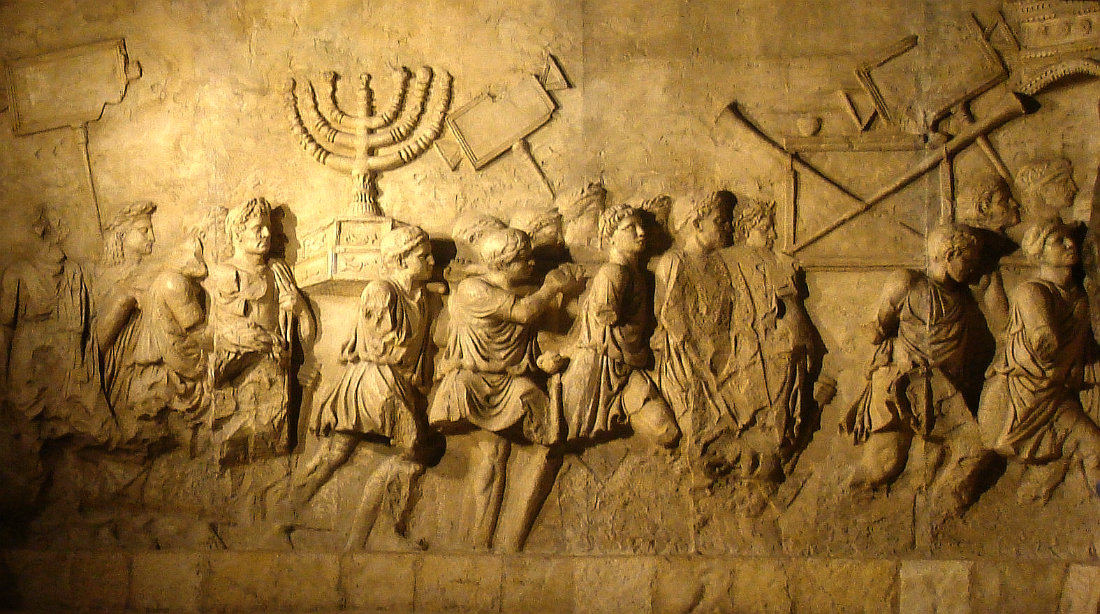 Roman Triumphal arch panel copy from Beth Hatefutsoth, showing spoils of Jerusalem temple.